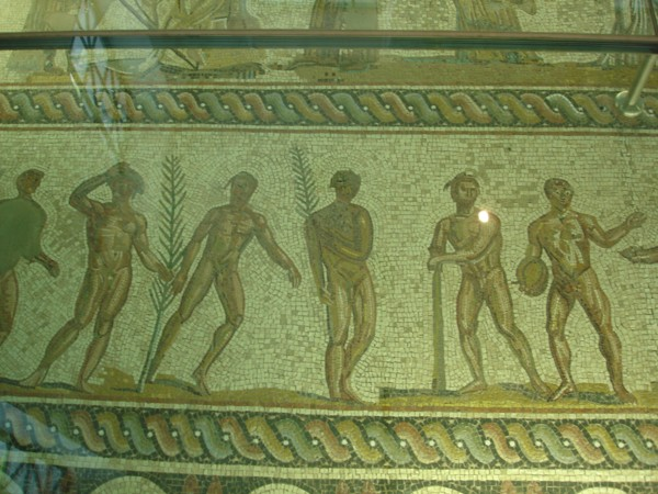 Mosaic floor depicting various athletes wearing wreaths. From the Museum of Olympia.